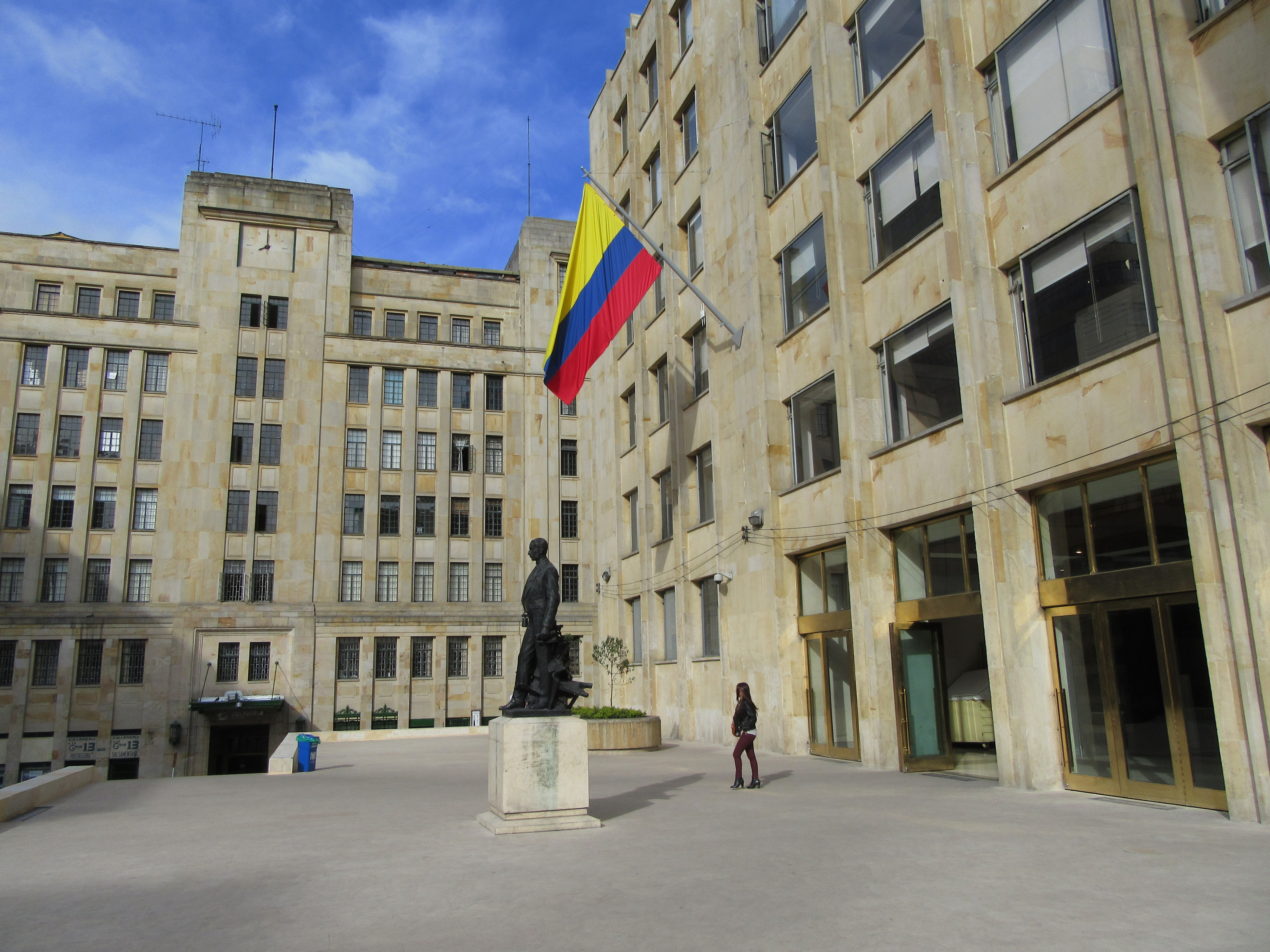 Bogotá